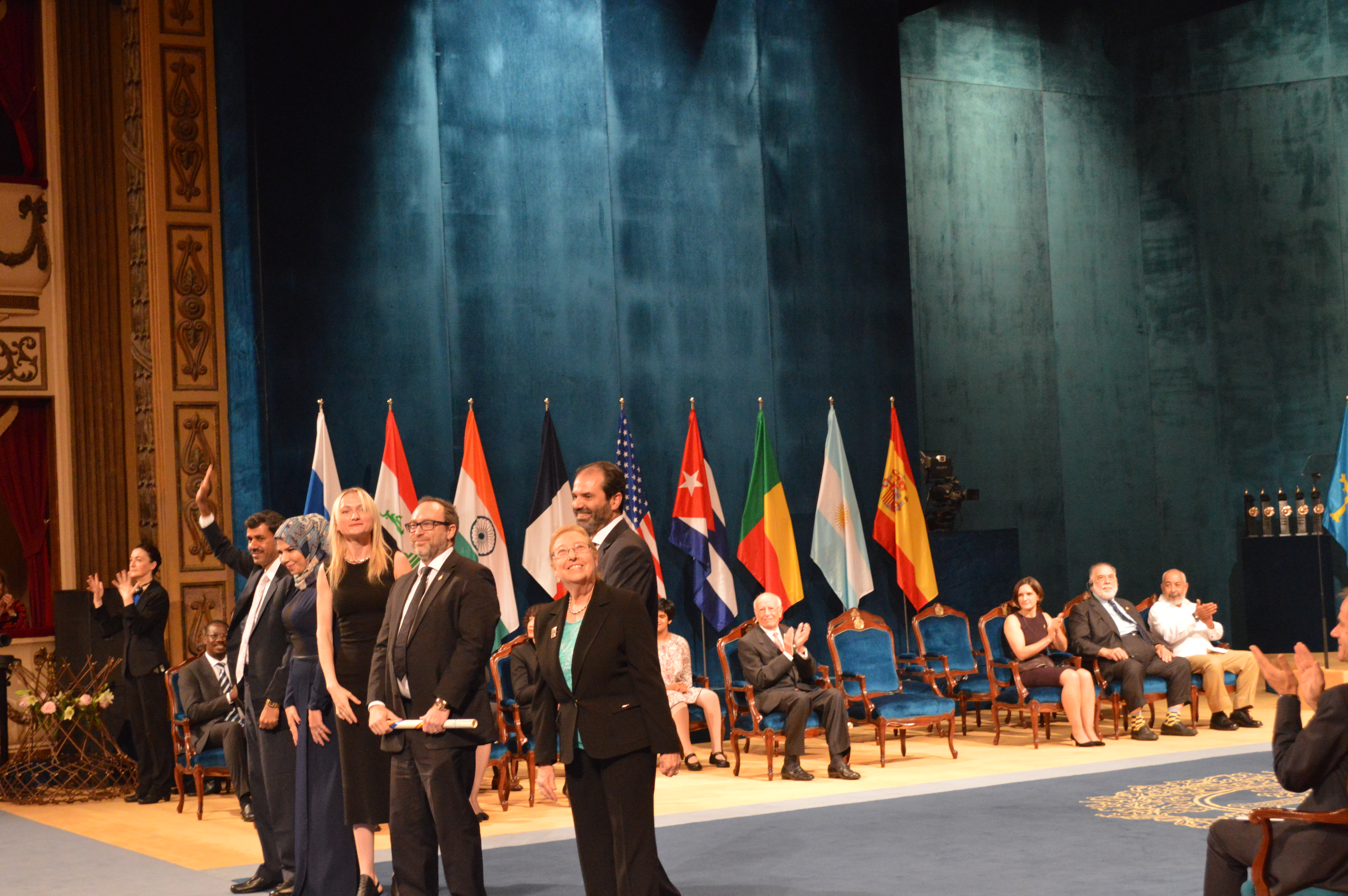 Wikipedia team is greeting the audience after receiving "Princess of Asturias Awards"